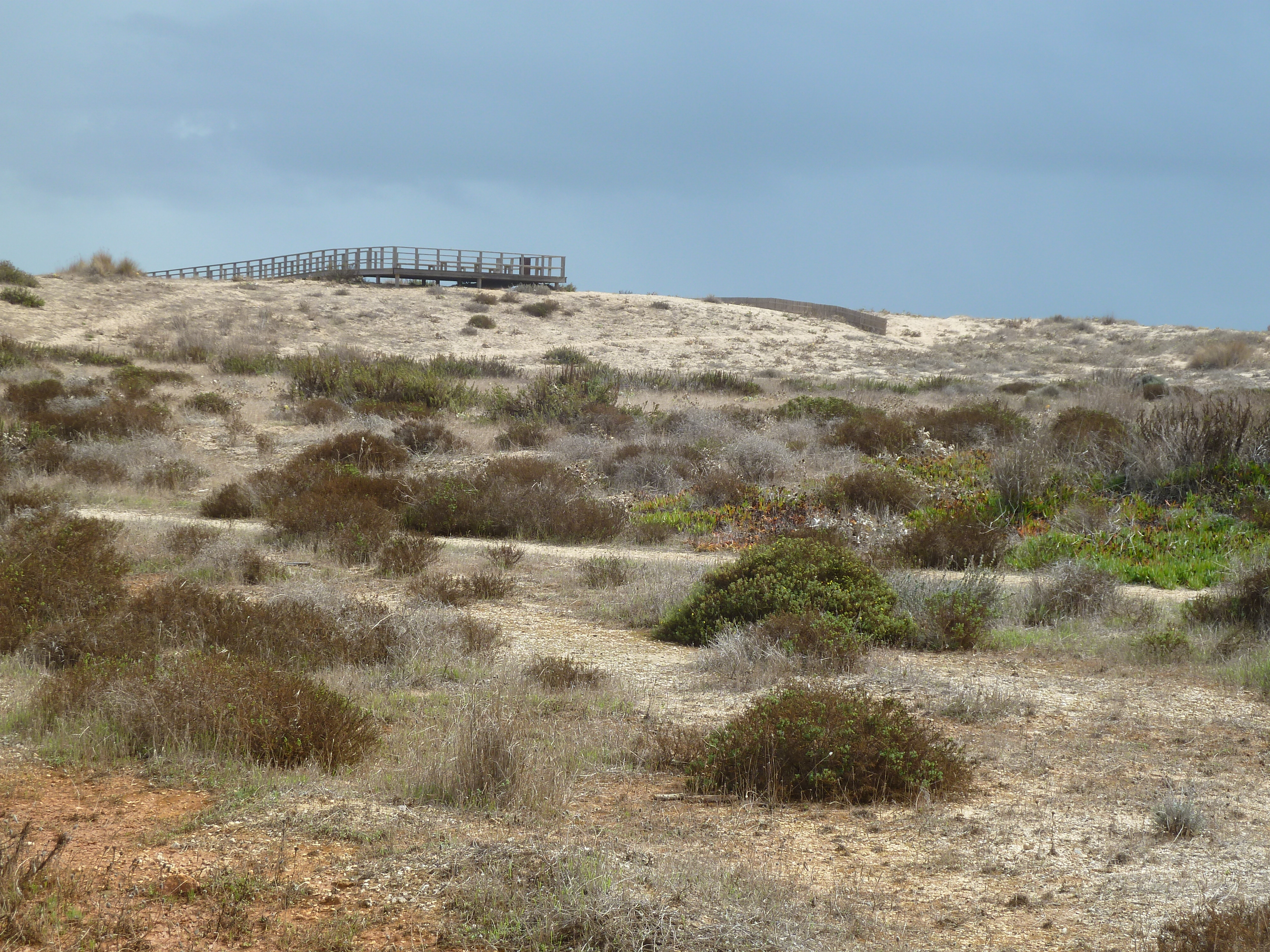 Ria de Alvor Nature Reserve Boardwalk The board walk traverse one of the most significant wildlife refuges in southern Portugal. There is an assortment of distinct estuarine habitats